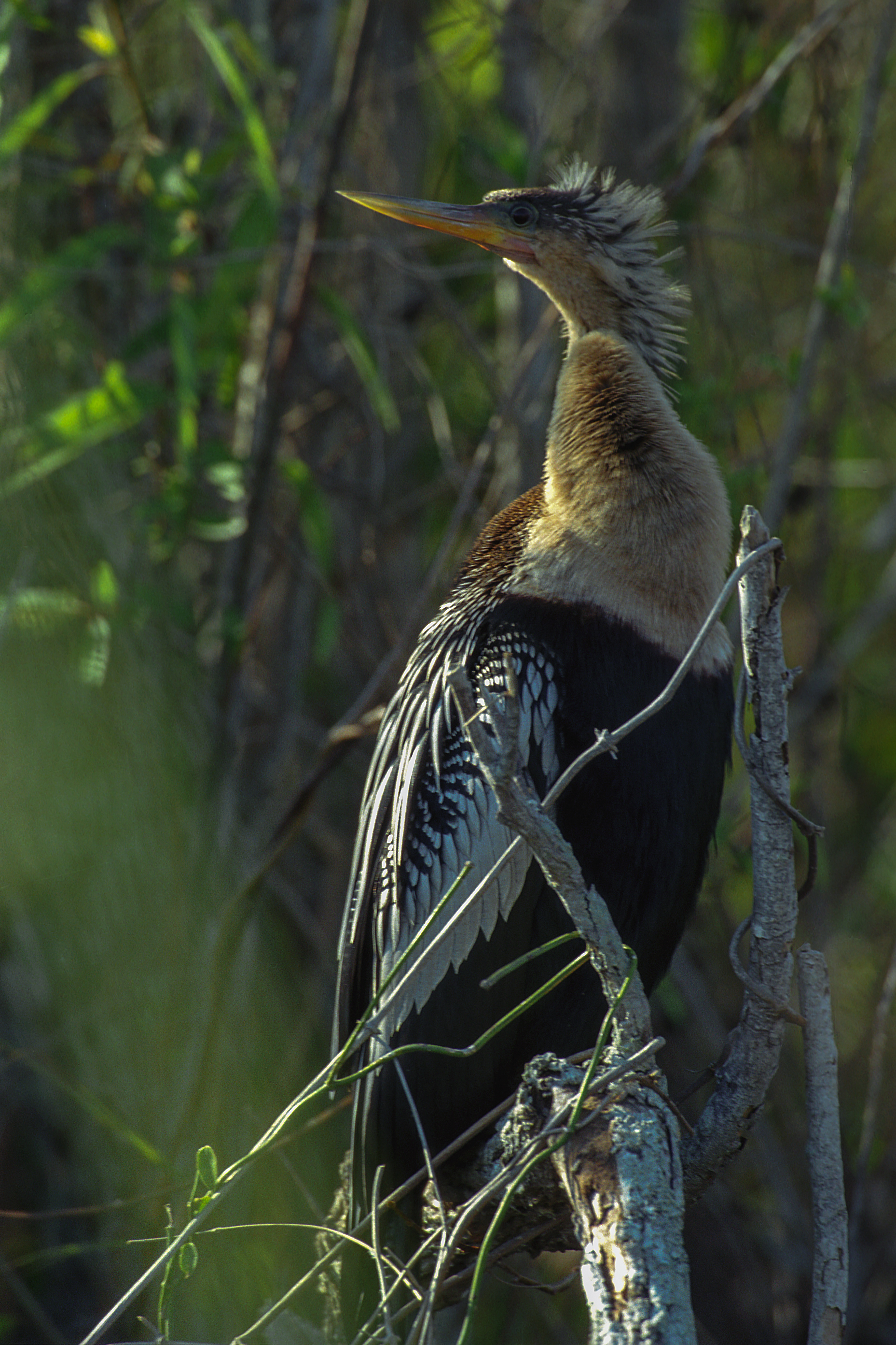 Anhinga, Everglades NP